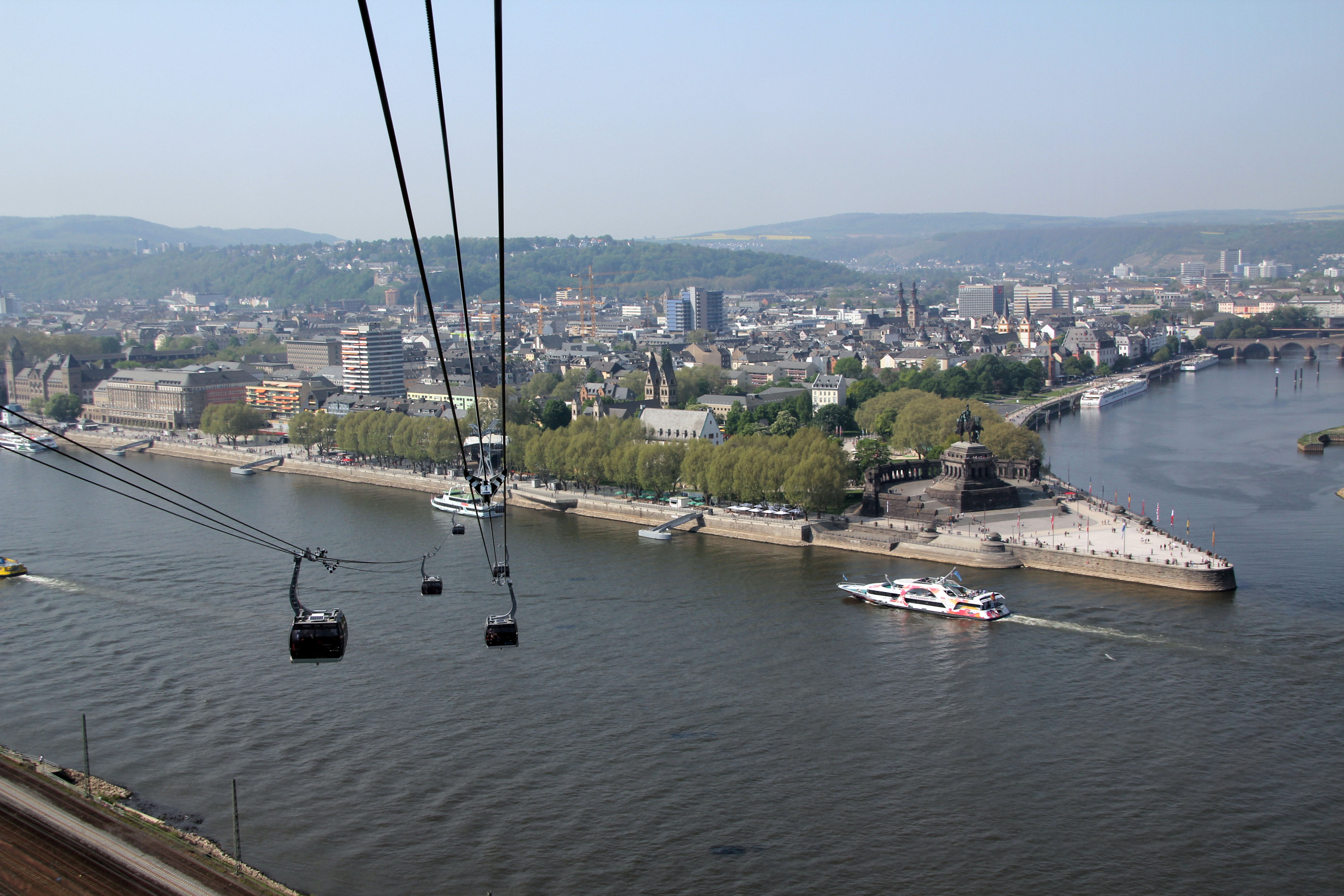 Koblenz Cable Car